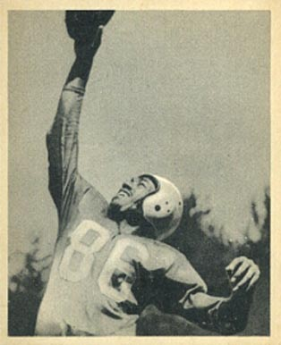 1948 Bowman football card of Bob Mann of the Detroit Lions; card number #47.